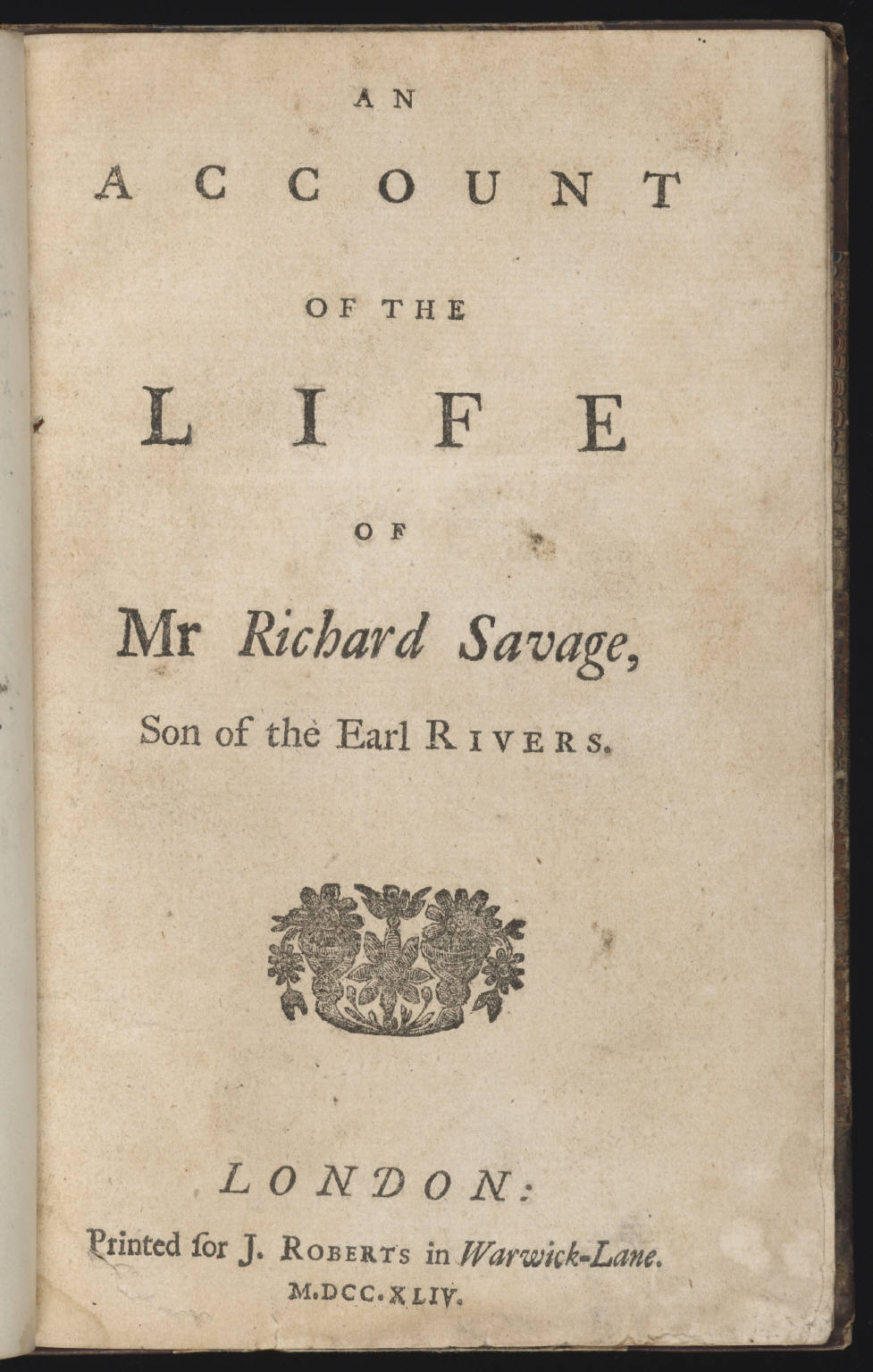 Title page of "An Account of the Life of Mr Richard Savage, Son of the Earl Rivers," by Samuel Johnson, printed for J Roberts in Warwick-Lane, woodcut. Dated 1744. Image courtesy of the General Collection, Beinecke Rare Book & Manuscript Library, Yale University, New Haven, Connecticut.